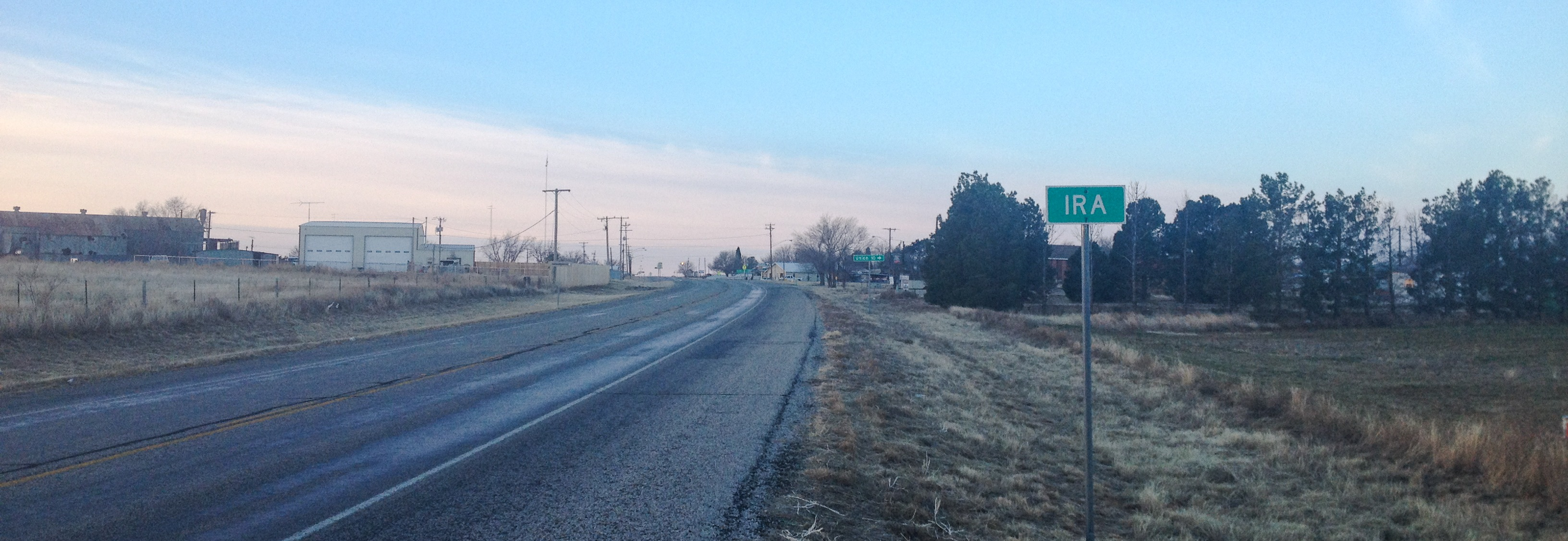 Ira, Texas in January 2014